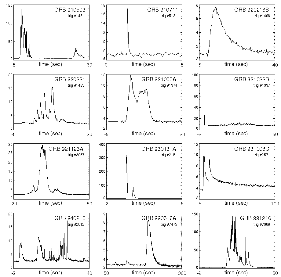 Light curves (plots of the intensity of emission [in what units?] as a function of time) of 12 bright gamma-ray bursts detected by BATSE, a NASA mission aboard the Compton Gamma-Ray Observatory. Gamma-ray bursts light curves display a tremendous amount of diversity and few discernable patterns. This sample includes short events and long events (duration ranging from milliseconds to minutes), events with smooth behavior and single peaks, and events with highly variable, erratic behavior with many peaks. Created with data from the public BATSE archive (